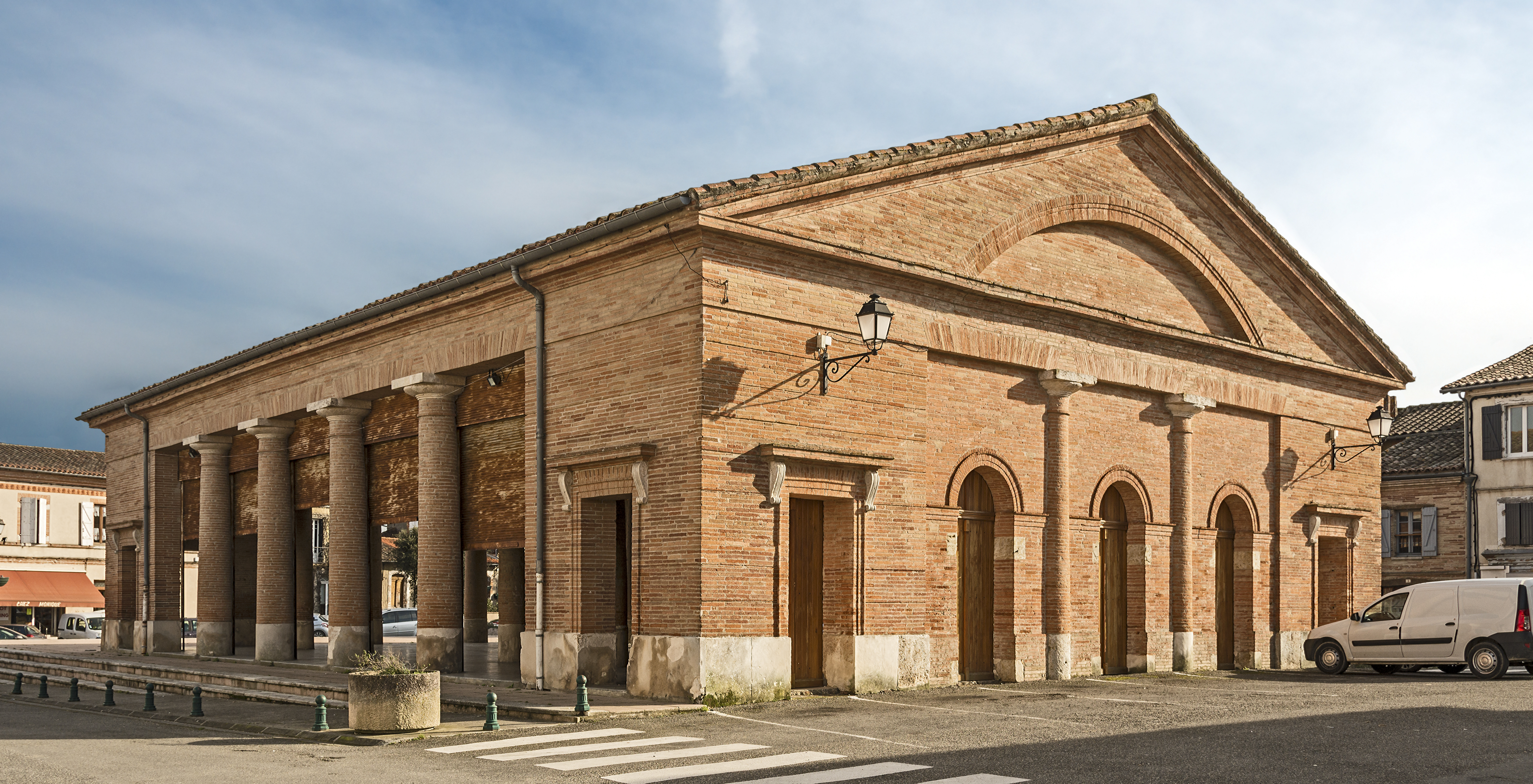 The hall of Cadours, Haute-Garonne, France. Second quarter of the nineteenth century by the architect Antoine Cambon.